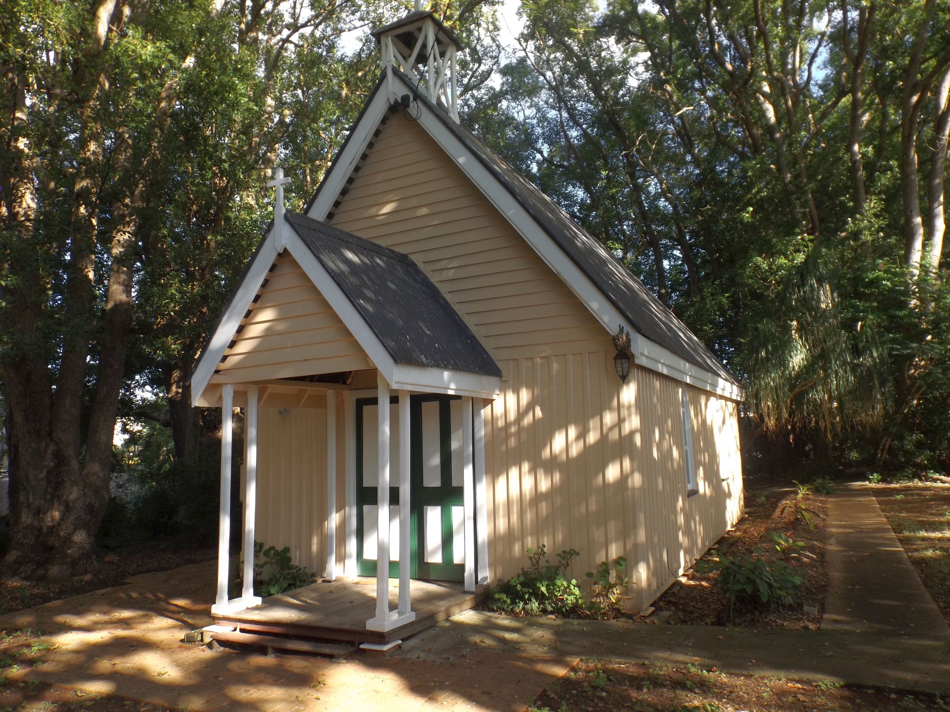 Photo of St Andrews Church, Ormiston, City of Redlands, Queensland, Australia.